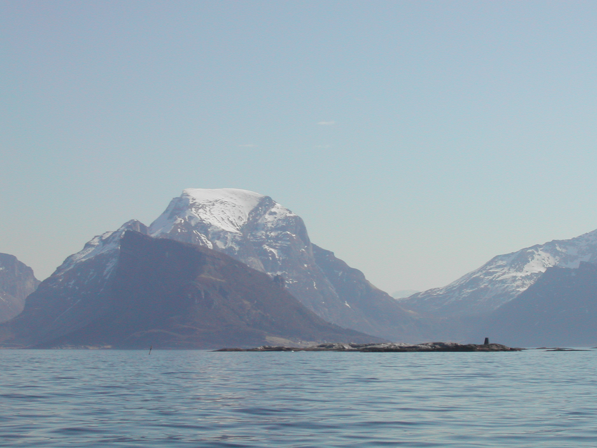 Nordhelgelandsflesa and Høgnakken